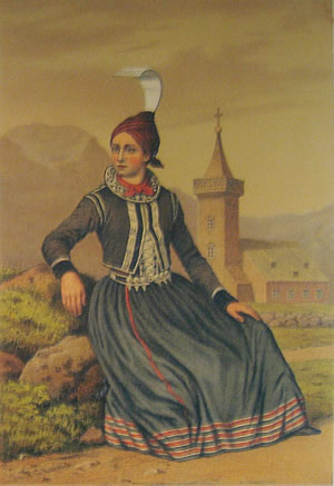 old picture of a girl from Mörðuvelli